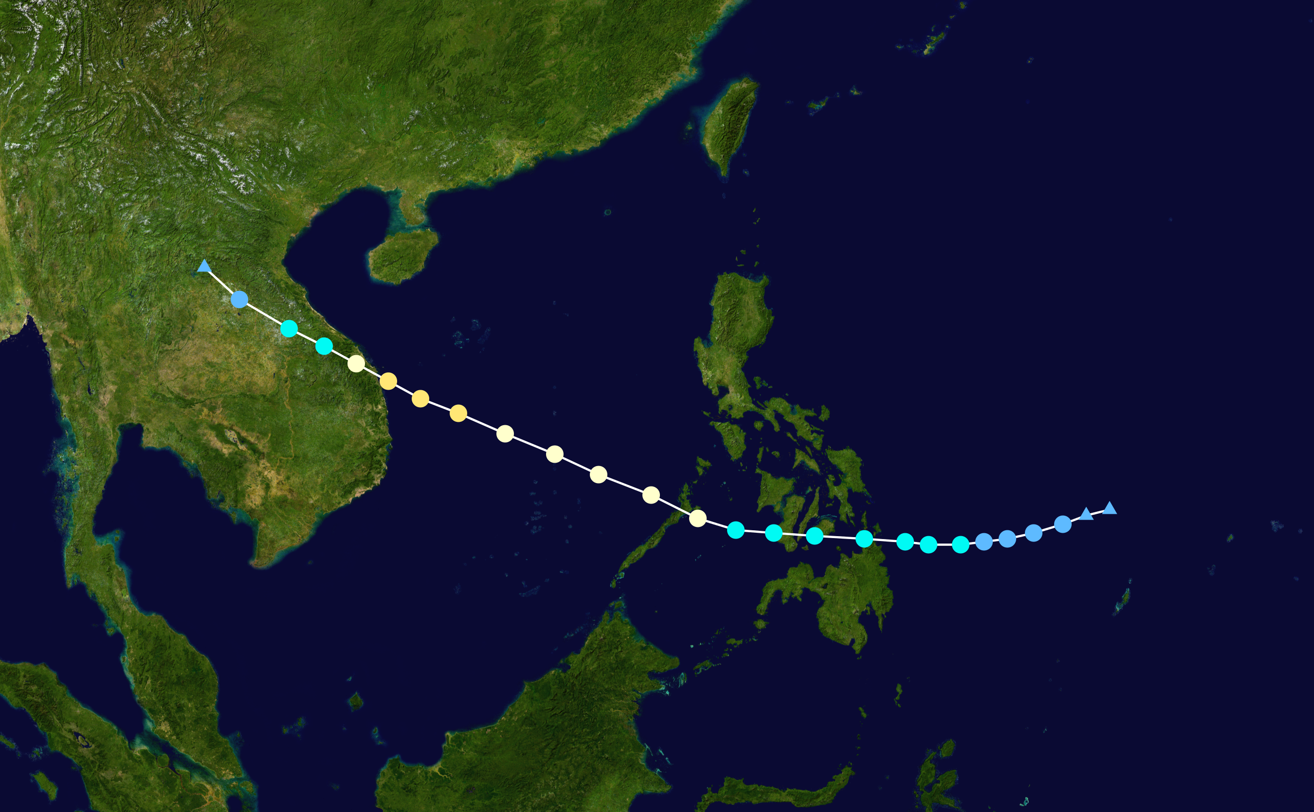 Track map of Typhoon Hester of the 1971 Pacific typhoon season. The points show the location of the storm at 6-hour intervals. The colour represents the storm's maximum sustained wind speeds as classified in the Saffir–Simpson hurricane wind scale (see below), and the shape of the data points represent the nature of the storm, according to the legend below. Saffir–Simpson hurricane wind scale Tropical depression≤38 mph≤62 km/h Category 3111–129 mph178–208 km/h Tropical storm39–73 mph63–118 km/h Category 4130–156 mph209–251 km/h Category 174–95 mph119–153 km/h Category 5≥157 mph≥252 km/h Category 296–110 mph154–177 km/h Unknown Storm typeTropical cycloneSubtropical cycloneExtratropical cyclone / Remnant low / Tropical disturbance